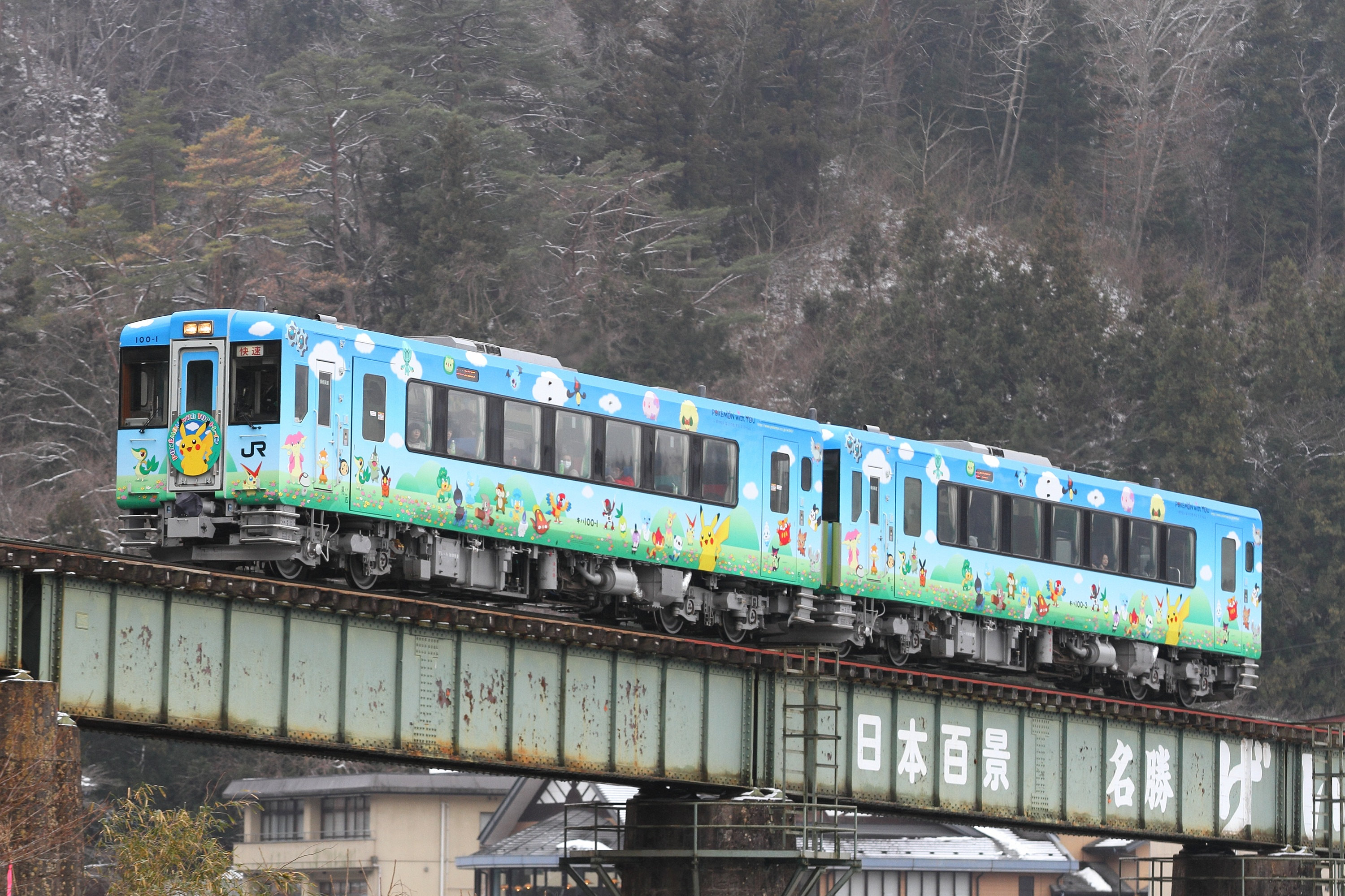 JR East KiHa 100 series 2-car "Pokemon With You Train" DMU set (KiHa 100-1 + KiHa 100-3) on the Ofunato Line